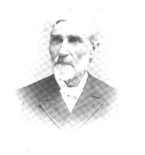 Picture of John Gosse Freeze, a 19th century Pennsylvanian lawyer